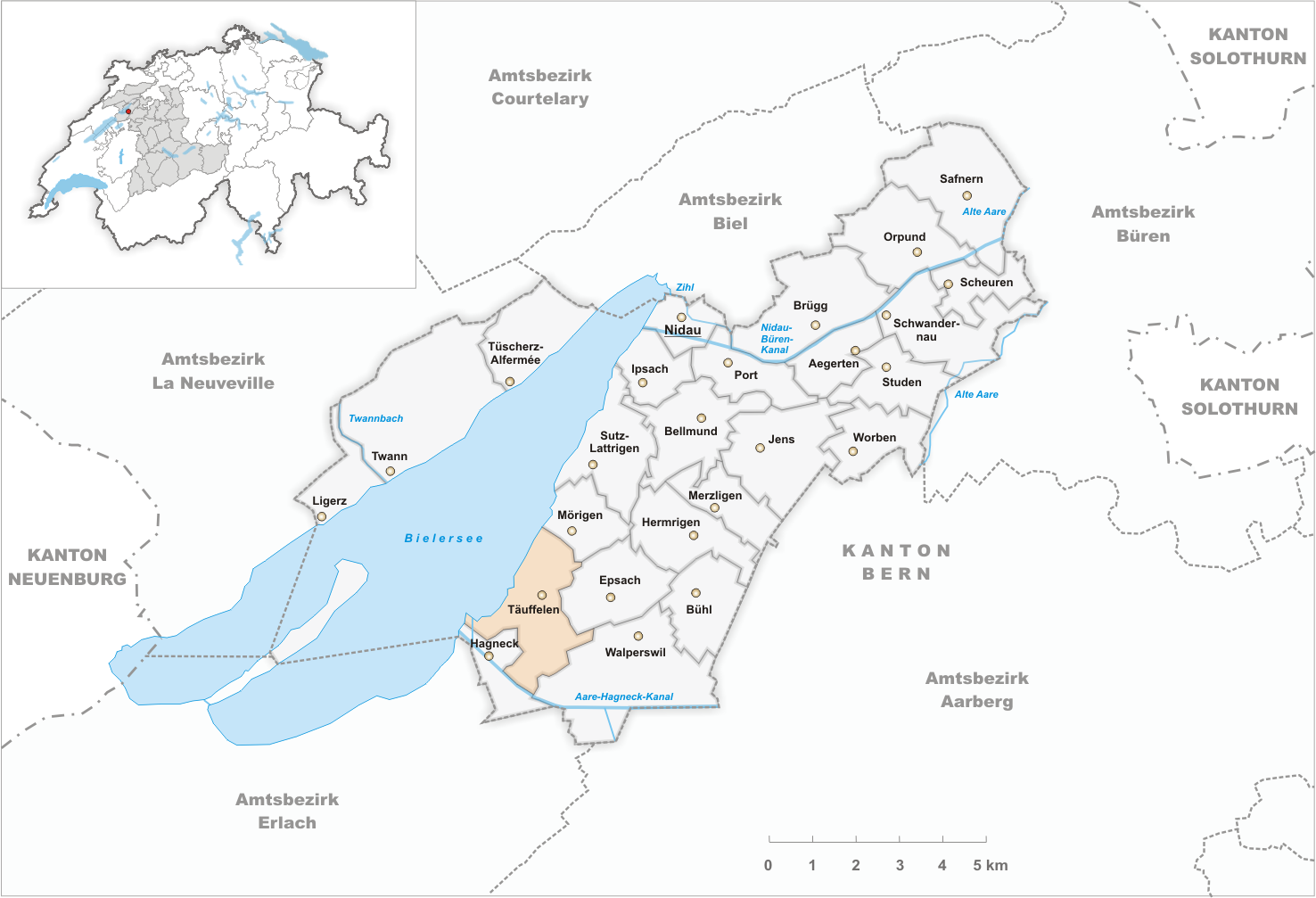 Municipality Täuffelen